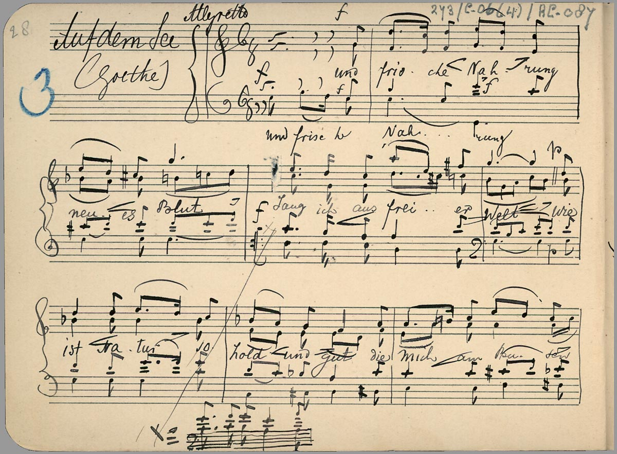 Composition Auf dem See by Alphons Diepenbrock, on a text by Goethe.